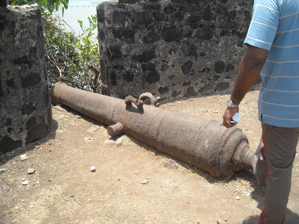 image was taken form korlai fort, Maharastra, India